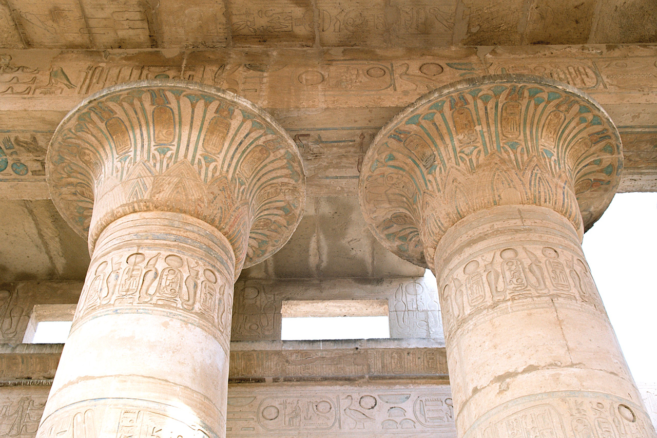 Decorations on column tops inside Ramesseum, part of Theban Necropolis, Luxor, Egypt.